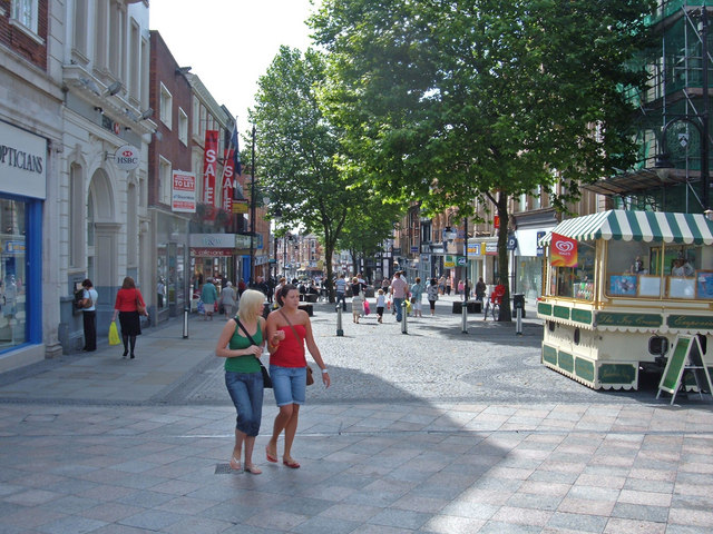 Bridge Street , Warrington This street is pedestrianised for part of its length and runs down the hill from Golden Square to the River Mersey. It was here on 20 March 1993 that the IRA exploded the bomb that killed two children.